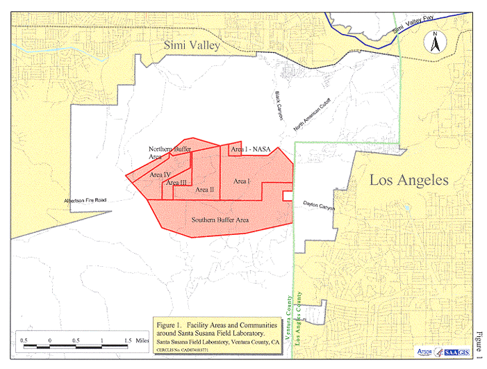 Facility areas and communities around the Rocketdyne Santa Susana Field Lab in the Greater Los Angeles region, Southern California. Located in the Simi Hills, between the southeastern Simi Valley (Ventura County) and northwestern San Fernando Valley (Los Angeles County), California. An EPA Superfund site for cleanup of toxin and nuclear soil and water pollution, from Rocketdyne engines (rockets) testing and nuclear research occurring from 1947 to the early 2000s.